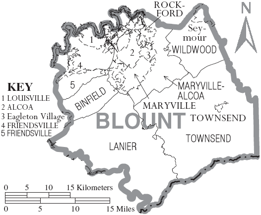 Map of Blount County, Tennessee, United States with boundaries of municipalites, Census-designated places, and Census county subdivisions